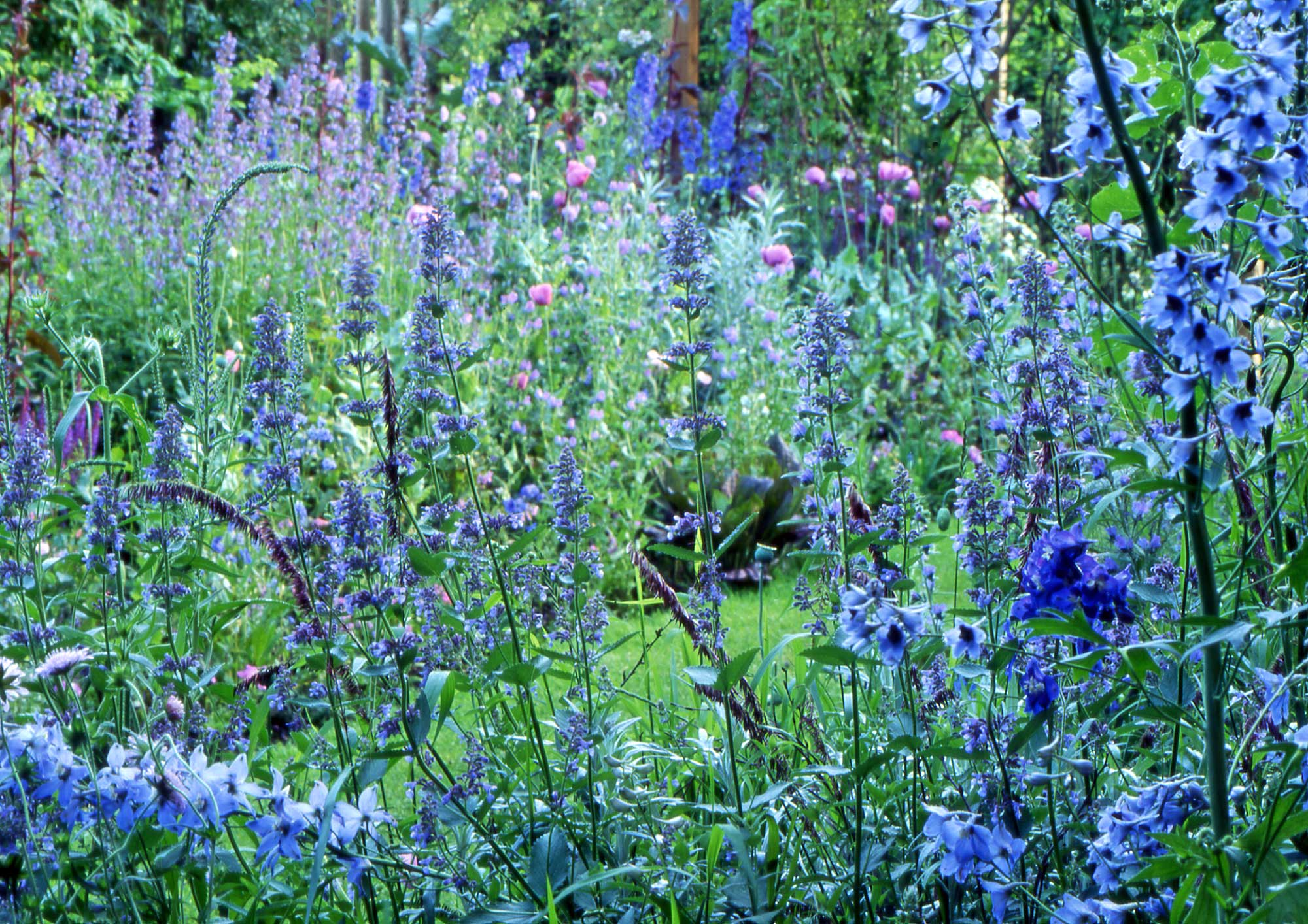 detail from the blue Garden